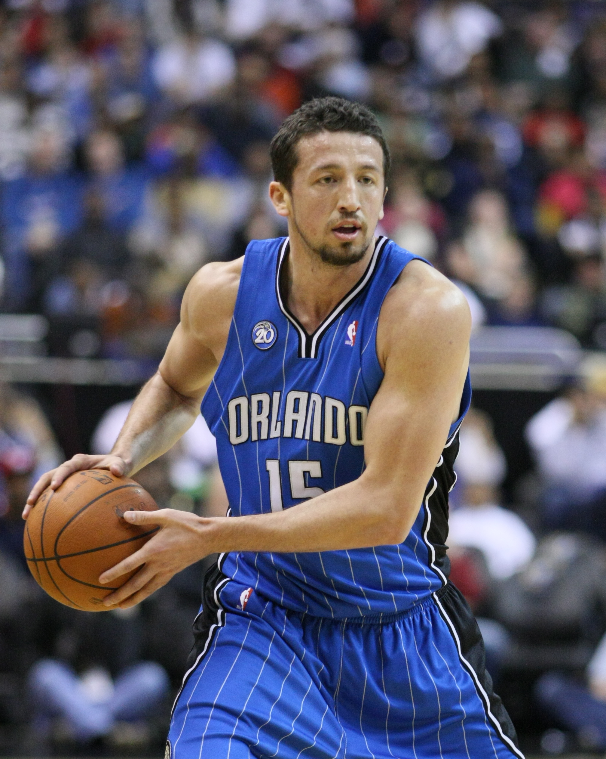 Hedo Turkoglu at the Washington Wizards v/s Orlando Magic game on 11/27/08